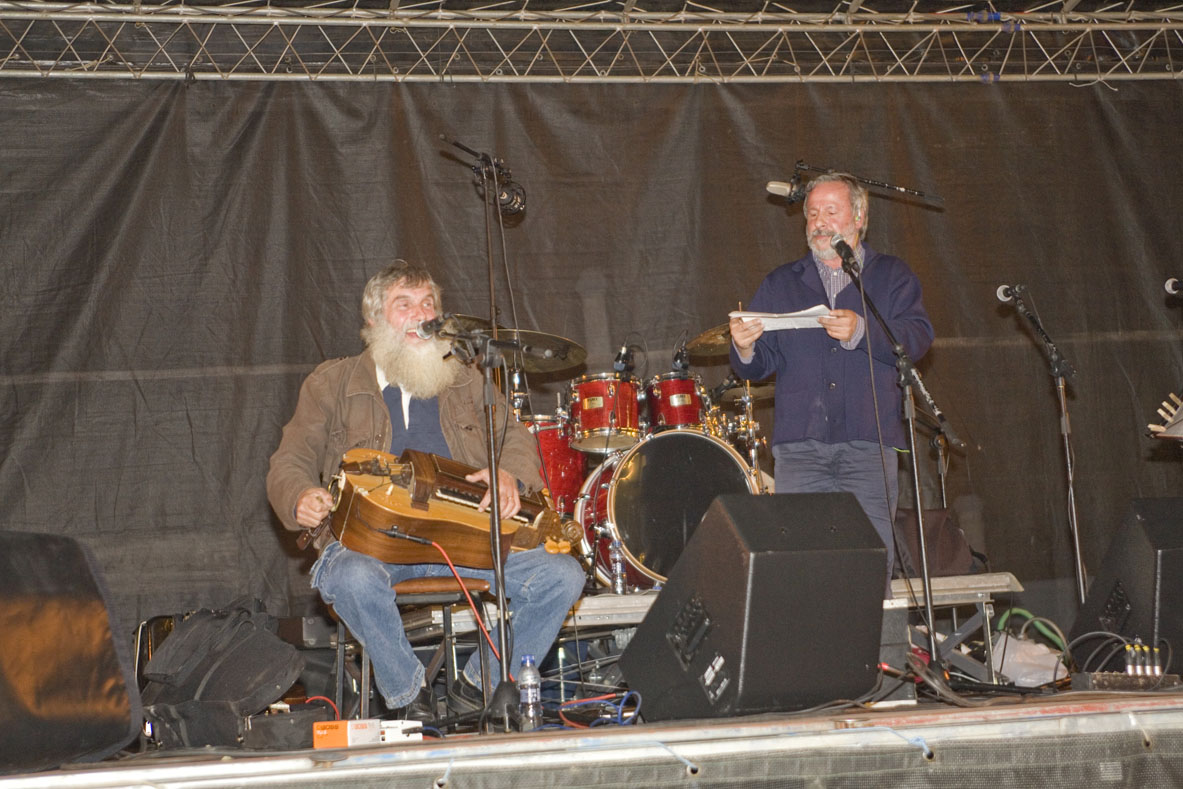 Galician musicians Mini & Mero on stage.